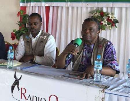 Beni, North-Kivu, DR Congo – The UN-owned Radio in the DRC, Radio Okapi, organized on September 6th, 2018 a live broadcast from Beni, where an epidemic of Ebola has been raging for more than a month. It was in the presence of the Congolese Minister of Health, Oly Ilunga, Professor Muyembe, Epidemiologist, and a crowd of guests who came to participate in this interactive program. The goal is to educate the public about the practices to be observed in order to curb the propensity of the virus in this territory. Photo MONUSCO/Aqueel Khan